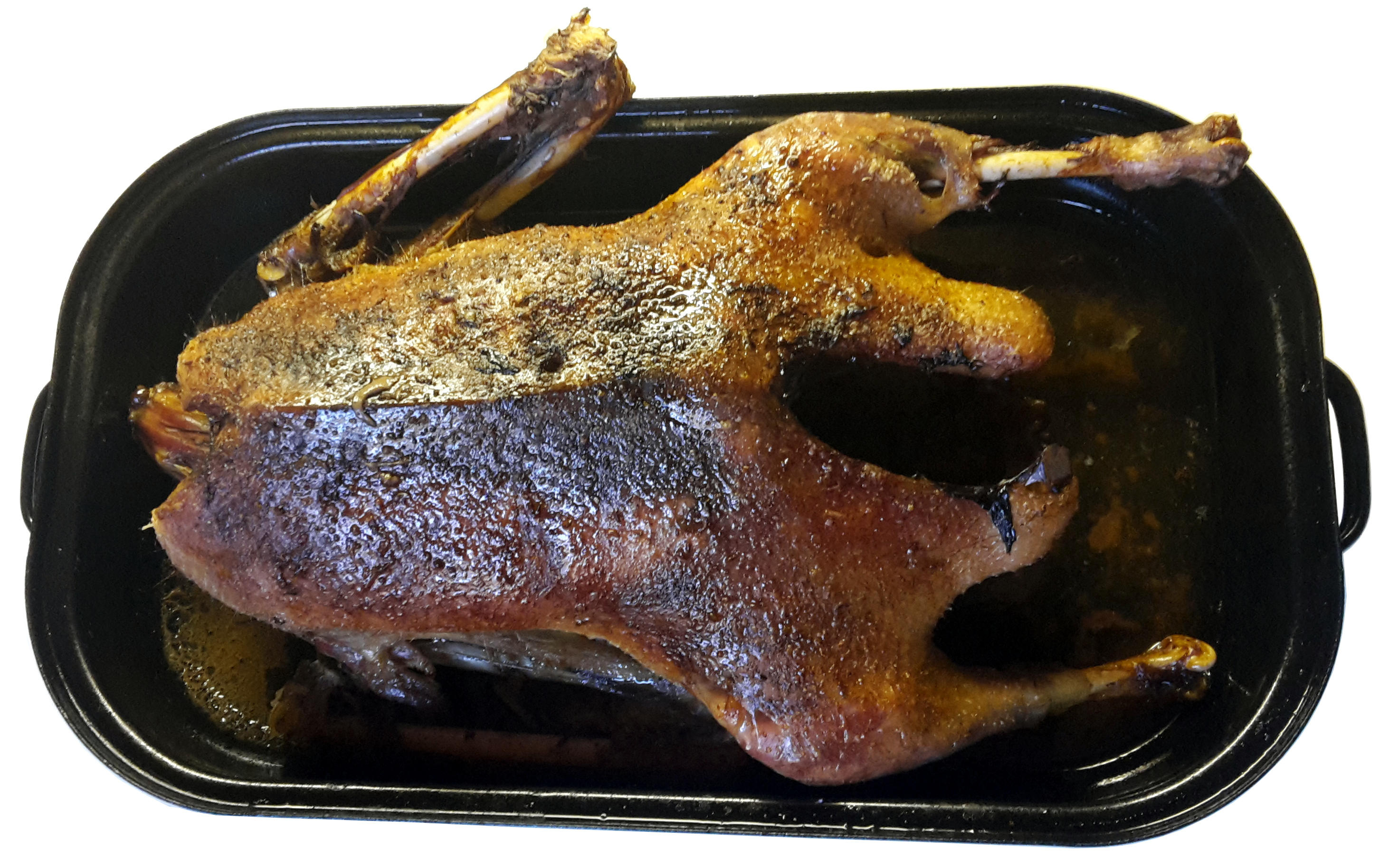 Roasted goose